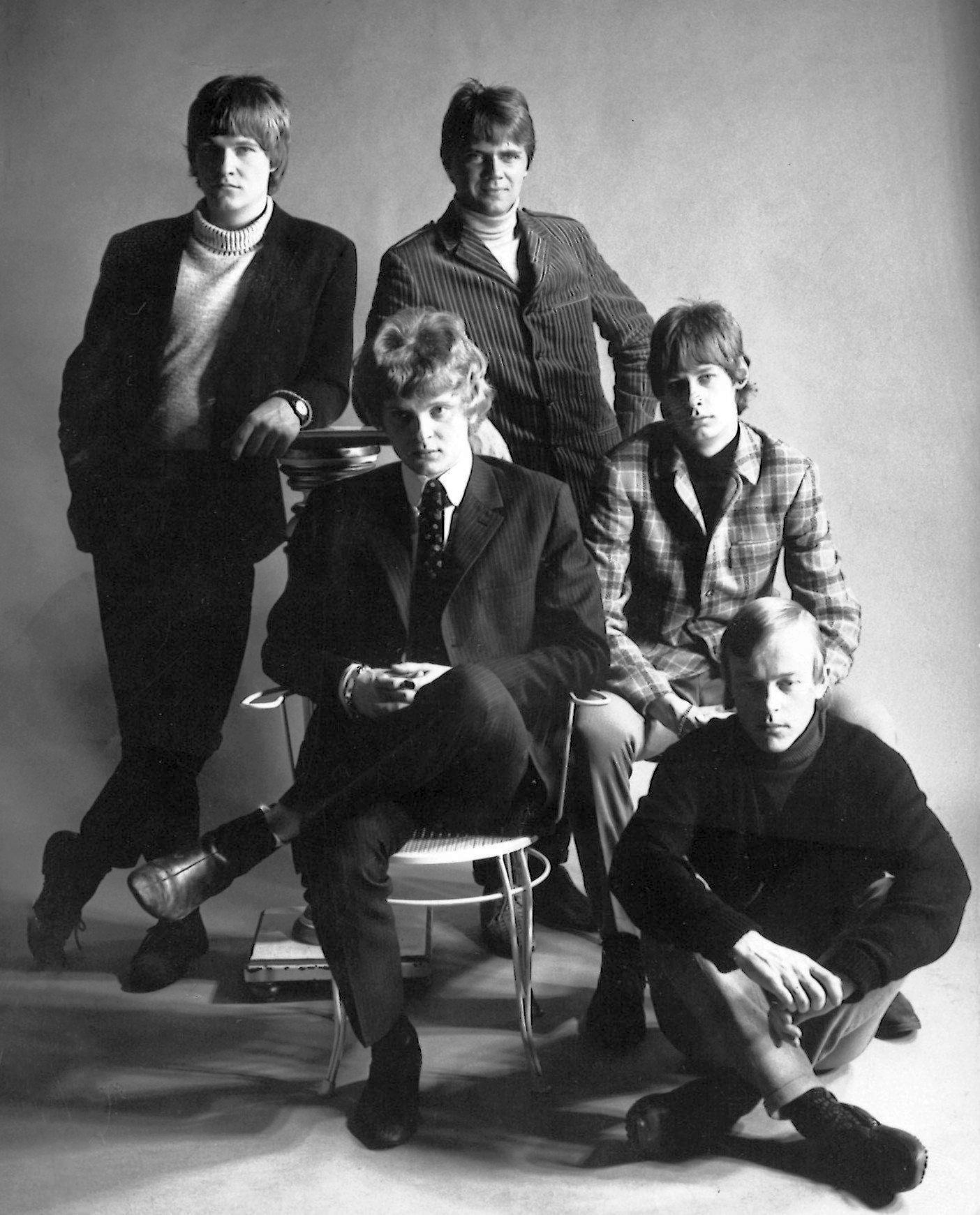 Photograph of the Finnish pop group Jormas: Raoul Wikström, Christer Bergholm, Pertti Willberg, Hasse Walli and Kurt Mattson.